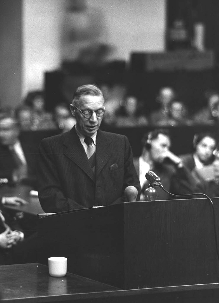 Hans Kühne (1880-1969) at the Nuremberg Trials. He was I.G. Farben official. not sentenced